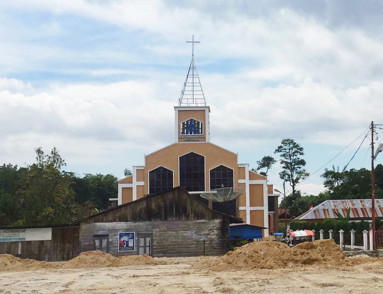 HKBP Sitoluama, Church in Sitoluama, Laguboti, Toba Samosir